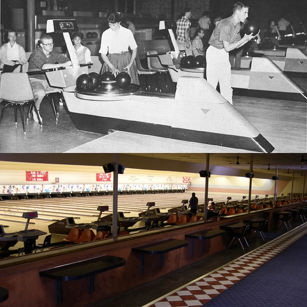 Kona Lanes at its peak (c. 1960) and decline (2002)